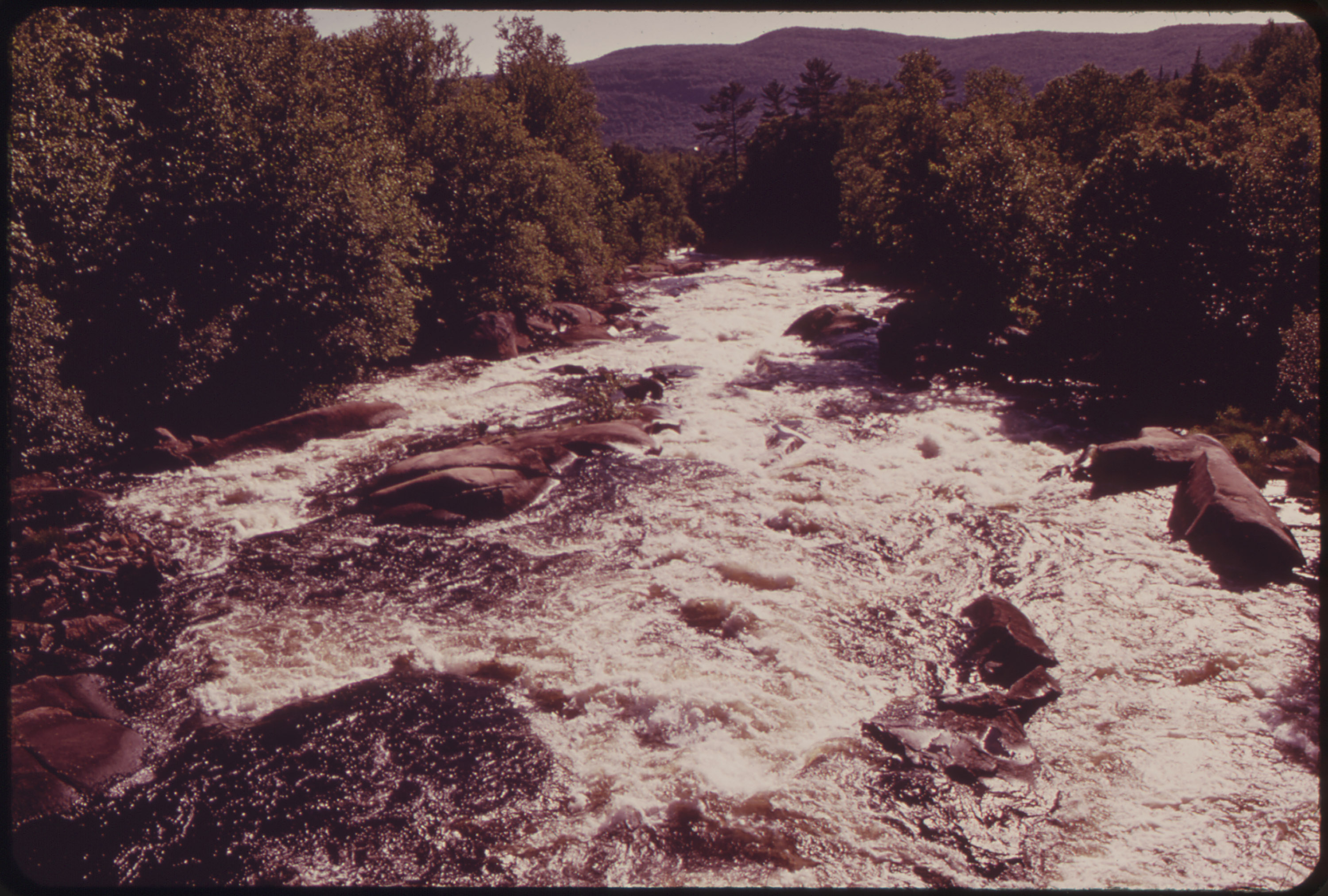 Magalloway River Below Aziscohos Dam in the Mountains of Western Maine in June 1973